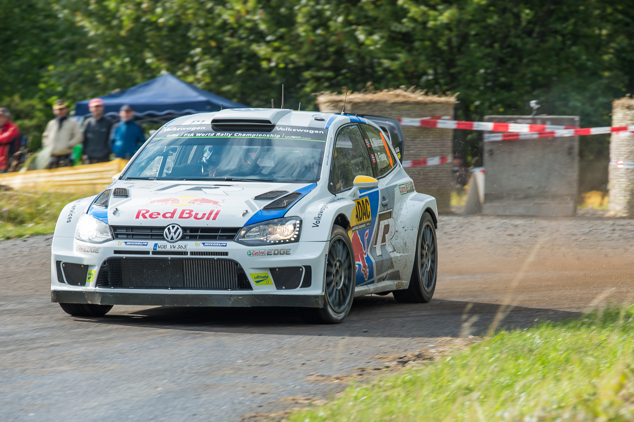 ADAC Rallye Deutschland 2014,Andreas Mikkelsen,FIA,FIA World Rally Championship,Motorsport,Ola Floene,Panzerplatte,Rally,Rallye,SS14,VW Polo R WRC,Volkswagen Motorsport,Volkswagen Polo R WRC,WP14,WRC